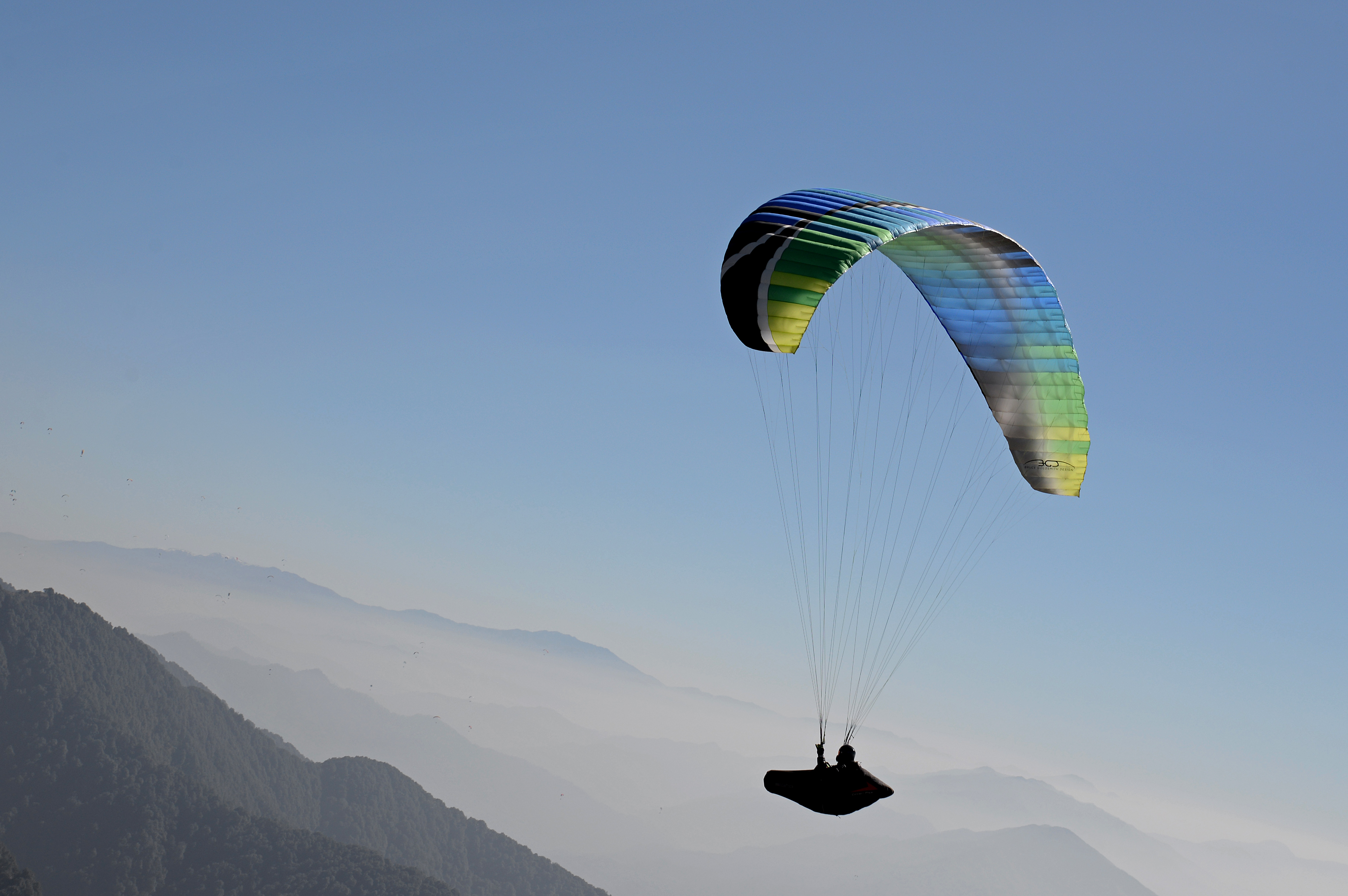 India in 2018 (photographed by Wojciech Kocot)